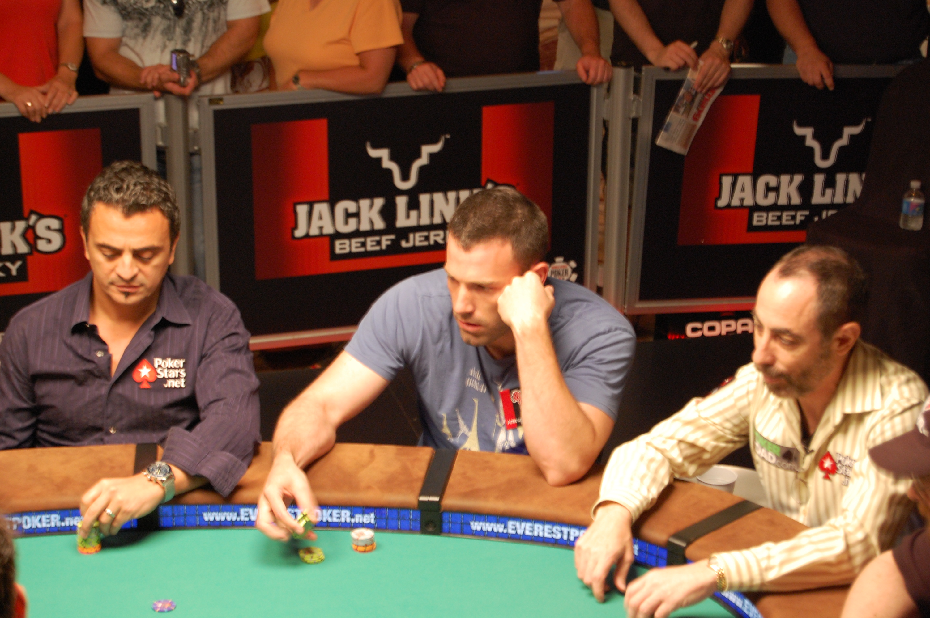 Ben Affleck playing poker at the annual Ante Up For Africa event in Las Vegas.